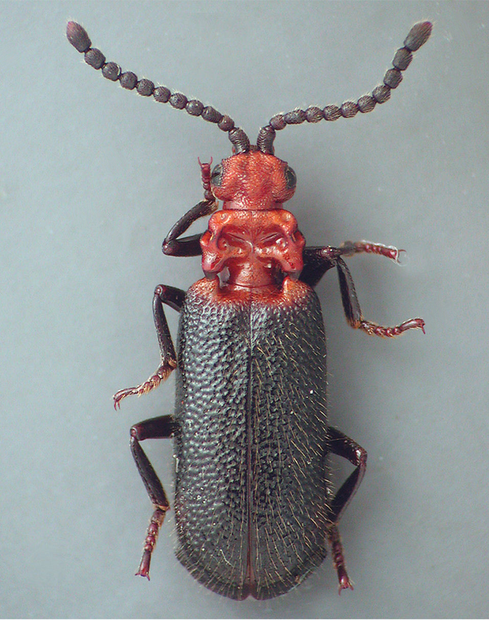 Protopaussus